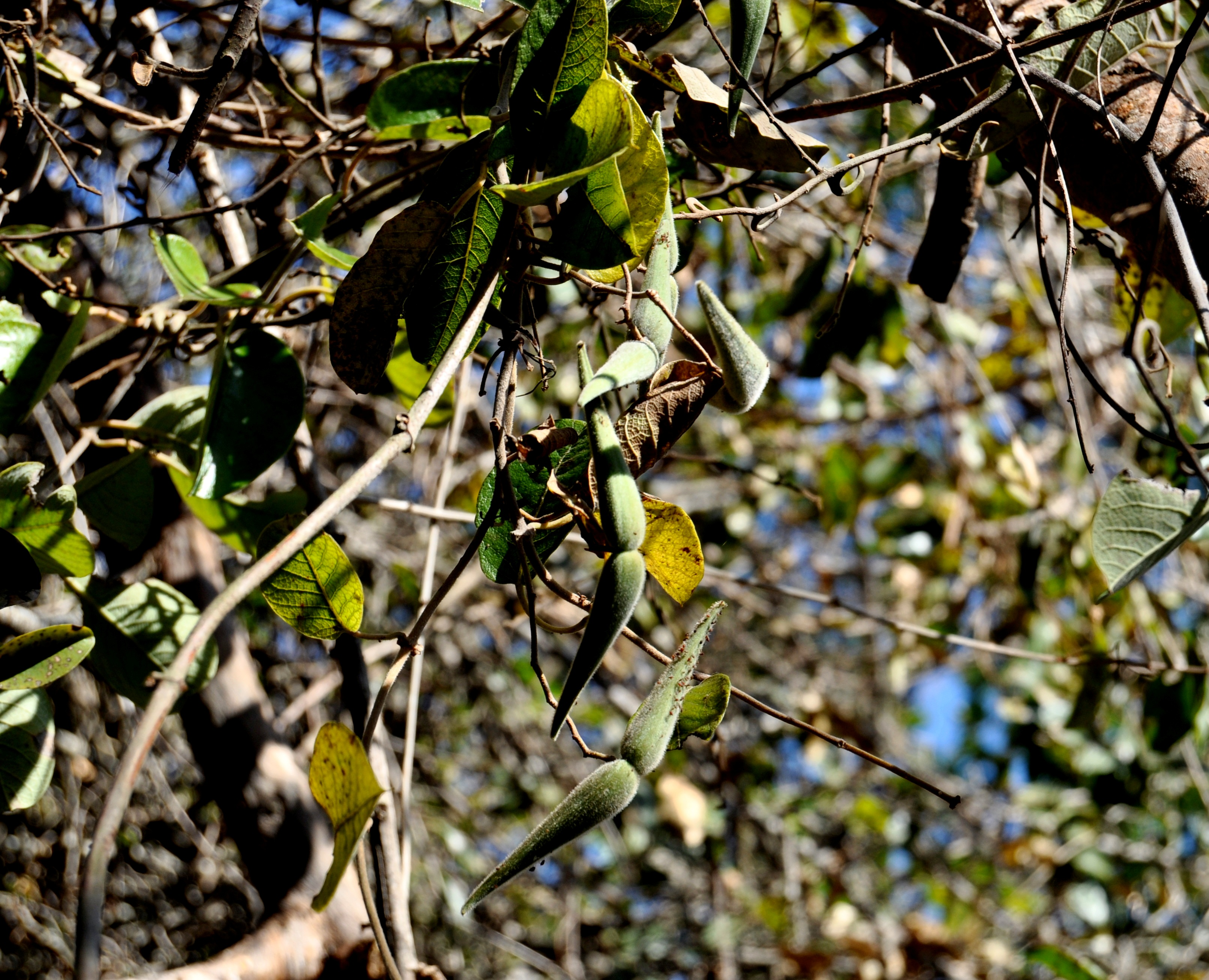 Tacazzea apiculata at the entrance to Vhuri–Vhuri camp site in Venda